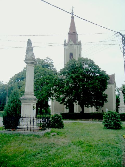 Roman Catholic Church in Vép, Hungary